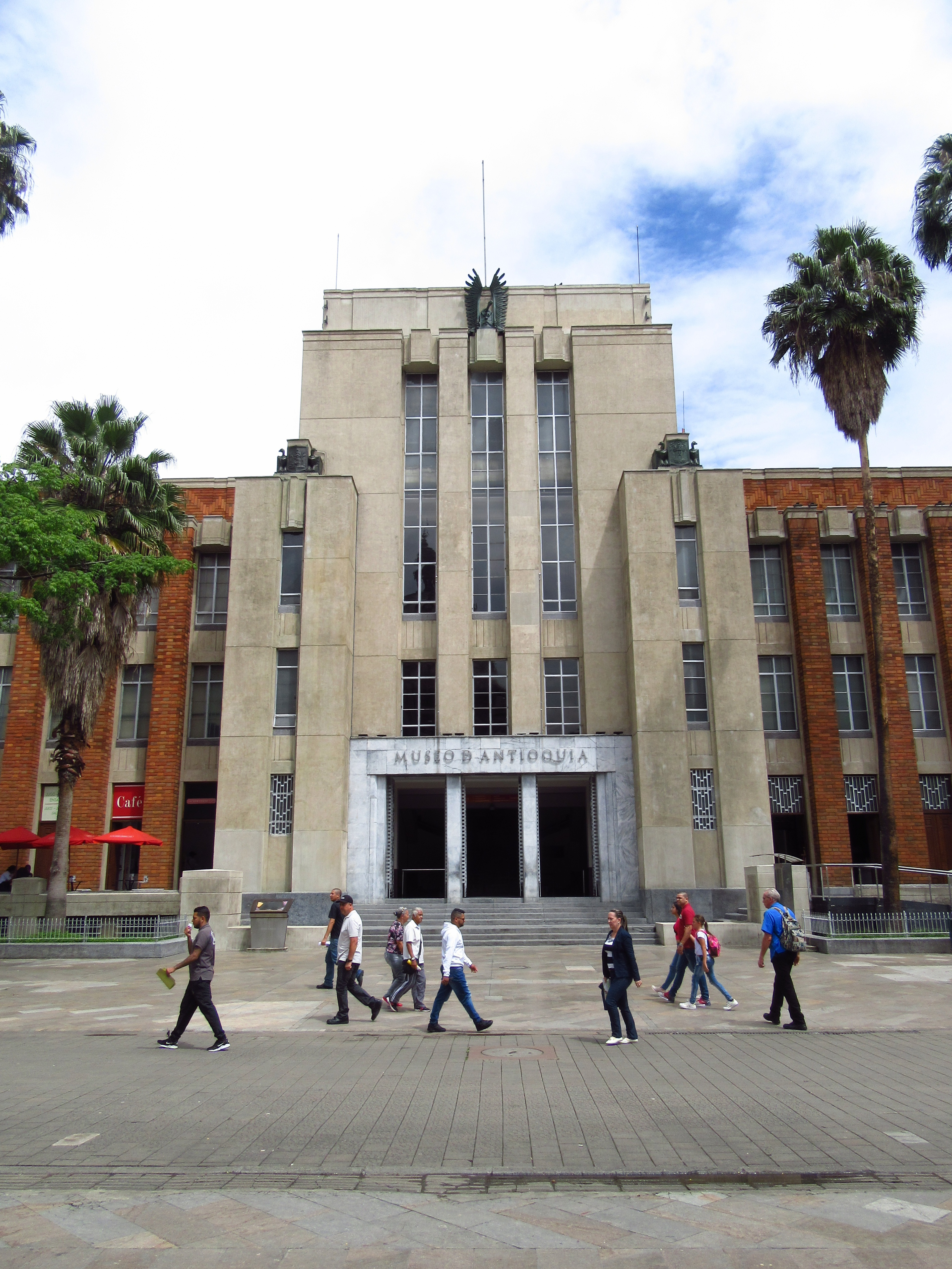 Medellín